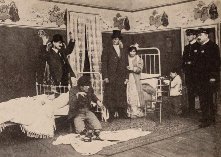 Still from the American short film The Stuff That Americans Are Made Of (1910) with Edna May Weick (in bed), Charles M. Seay (raised hands), William West (on knees), Charles Martin (father of Vivian Martin), Nellie Grant, child actor Yale Boss, and policemen extras (unknown actors). The Edison Co. trademark is above the raised hands. The plot involves a boy, told to care for his sister, holding two robbers at bay until his parents return home. The caption says that Charles Seay wrote it and Ashley Miller directed it. On page 95 of the December 25, 1920 Exhibitors Herald.